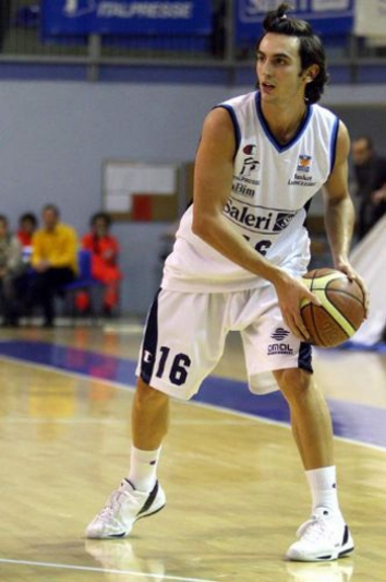 Lorenzo Gergati, Italian basketball player.